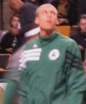 Boston Celtics center Greg Stiemsma warms up before a game against the Houston Rockets.